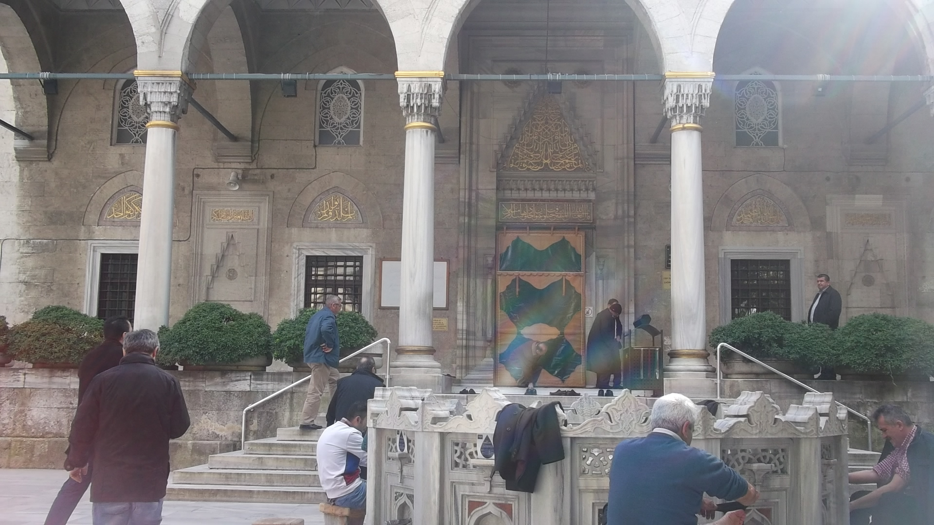 Entrance of Şişli Mosque.